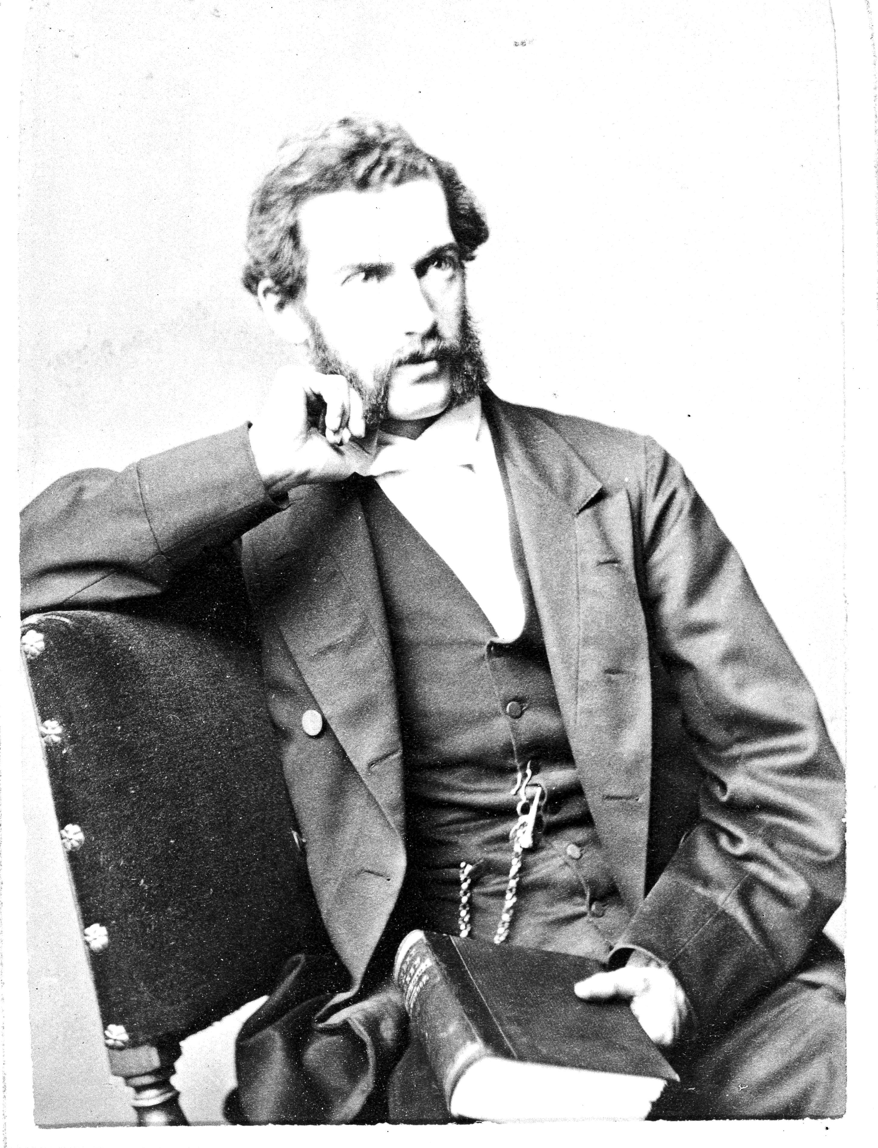 Portrait of Arthur Ernest Sansom Wellcome Images Keywords: Arthur Ernest Sansom